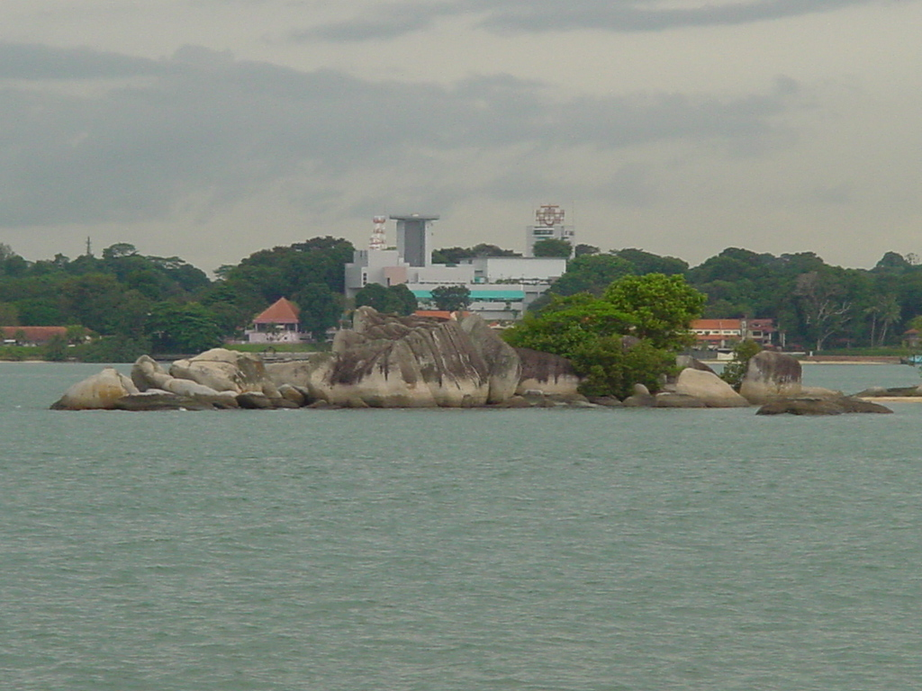 Pulau Sekudu